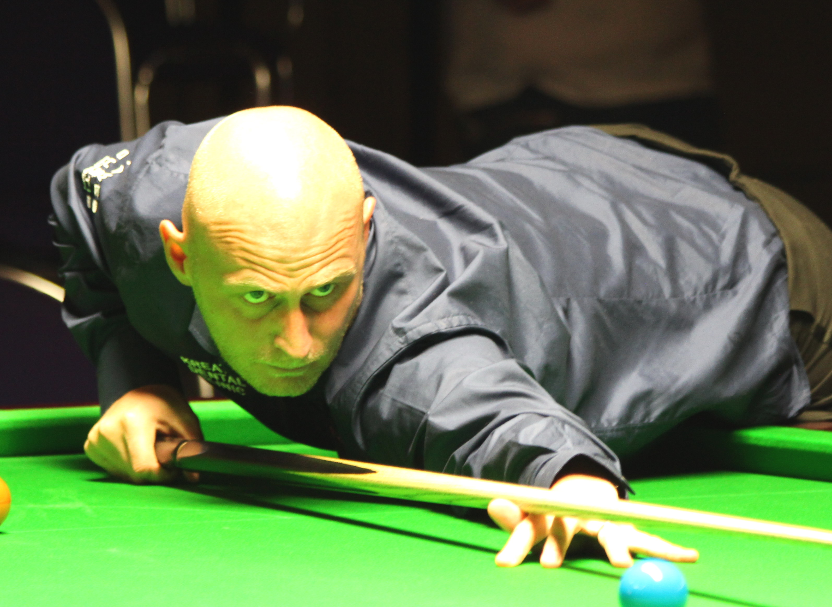 Craig Steadman beim Paul Hunter Classic 2015